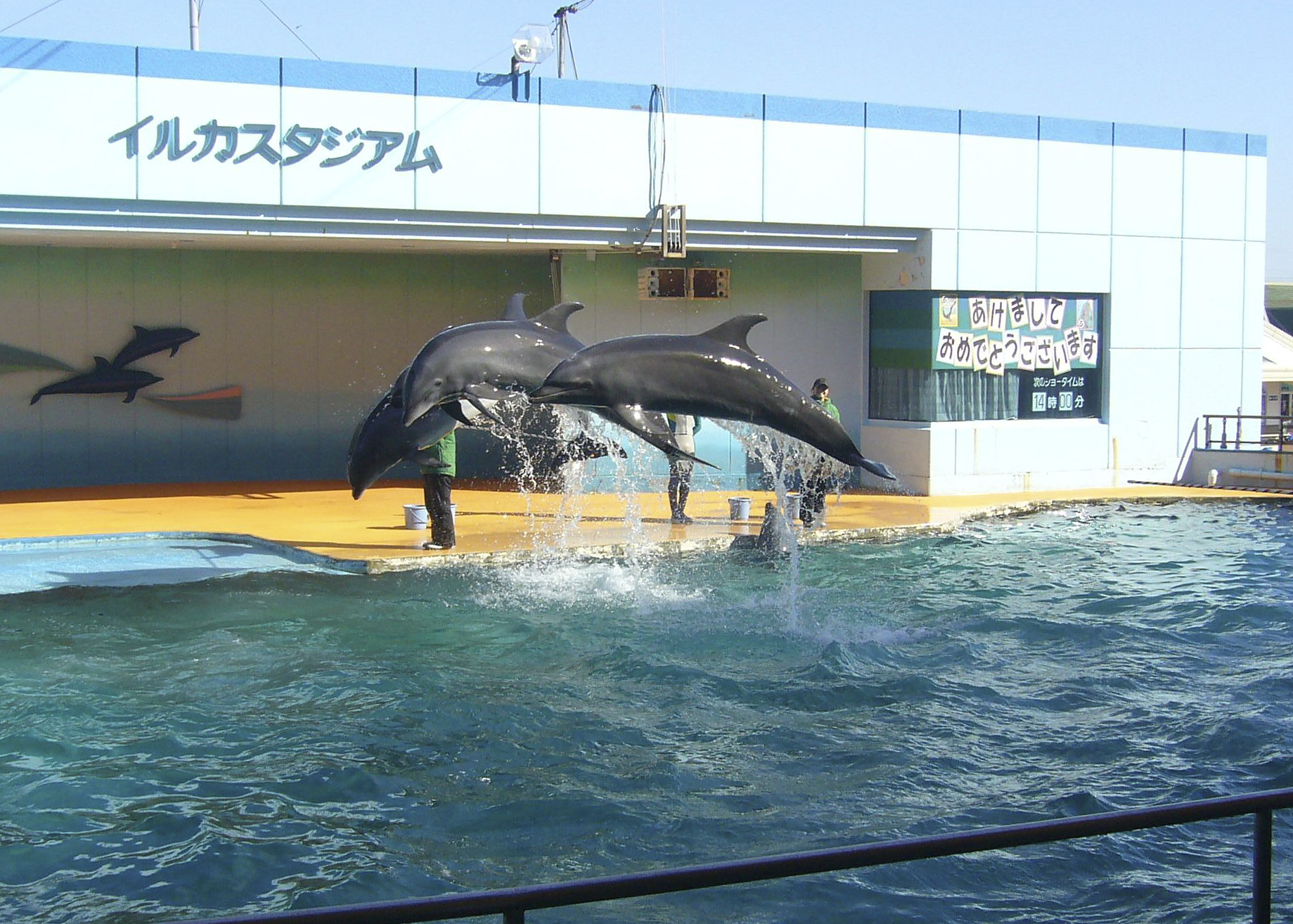 Minami Chita Beach Land. Panasonic Lumix DMC-FX9